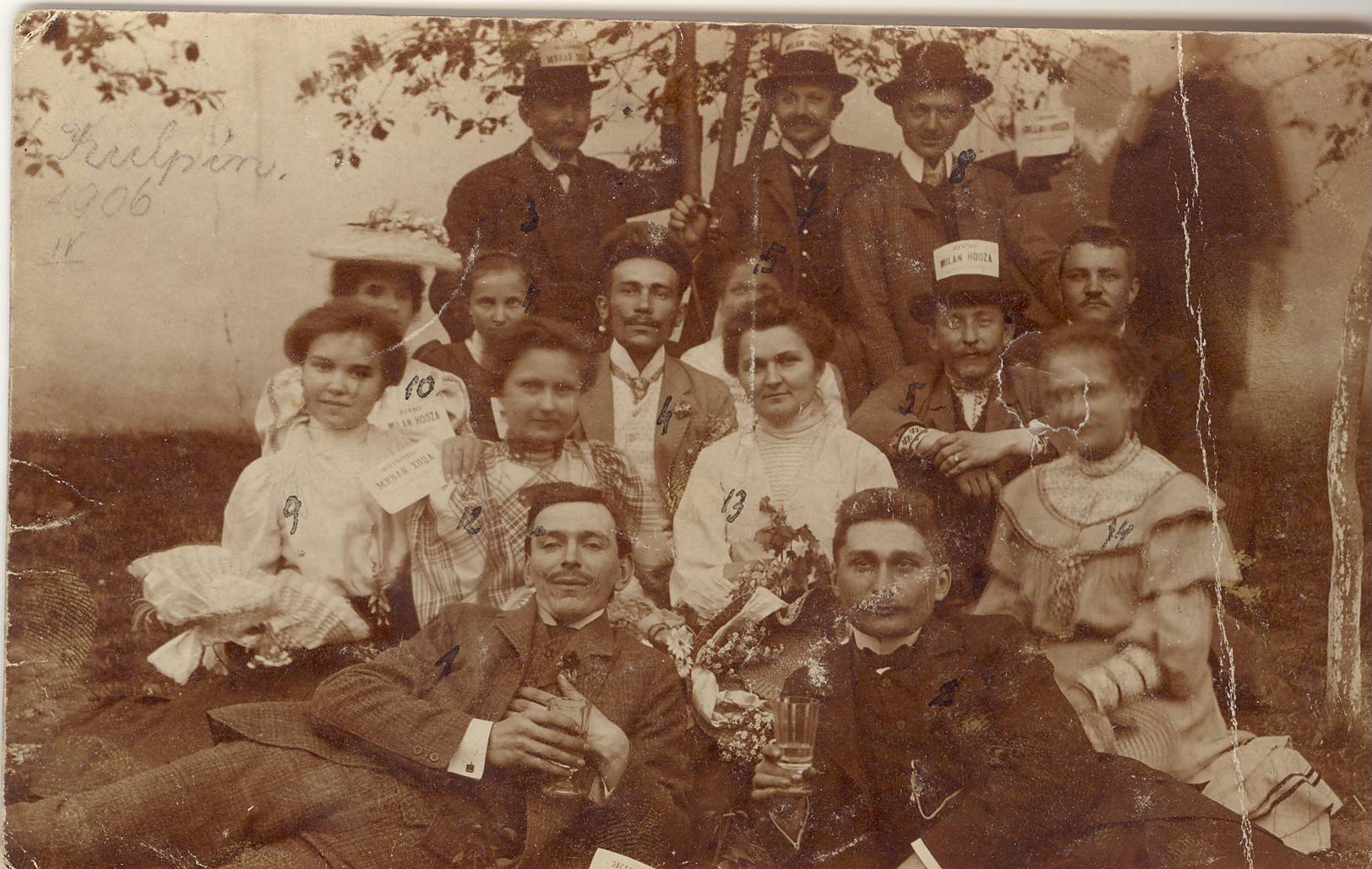 Supporters of Milan Hodža in Kulpin, 1906. Museum of vojvodinian Slovaks, inventory number 1755.